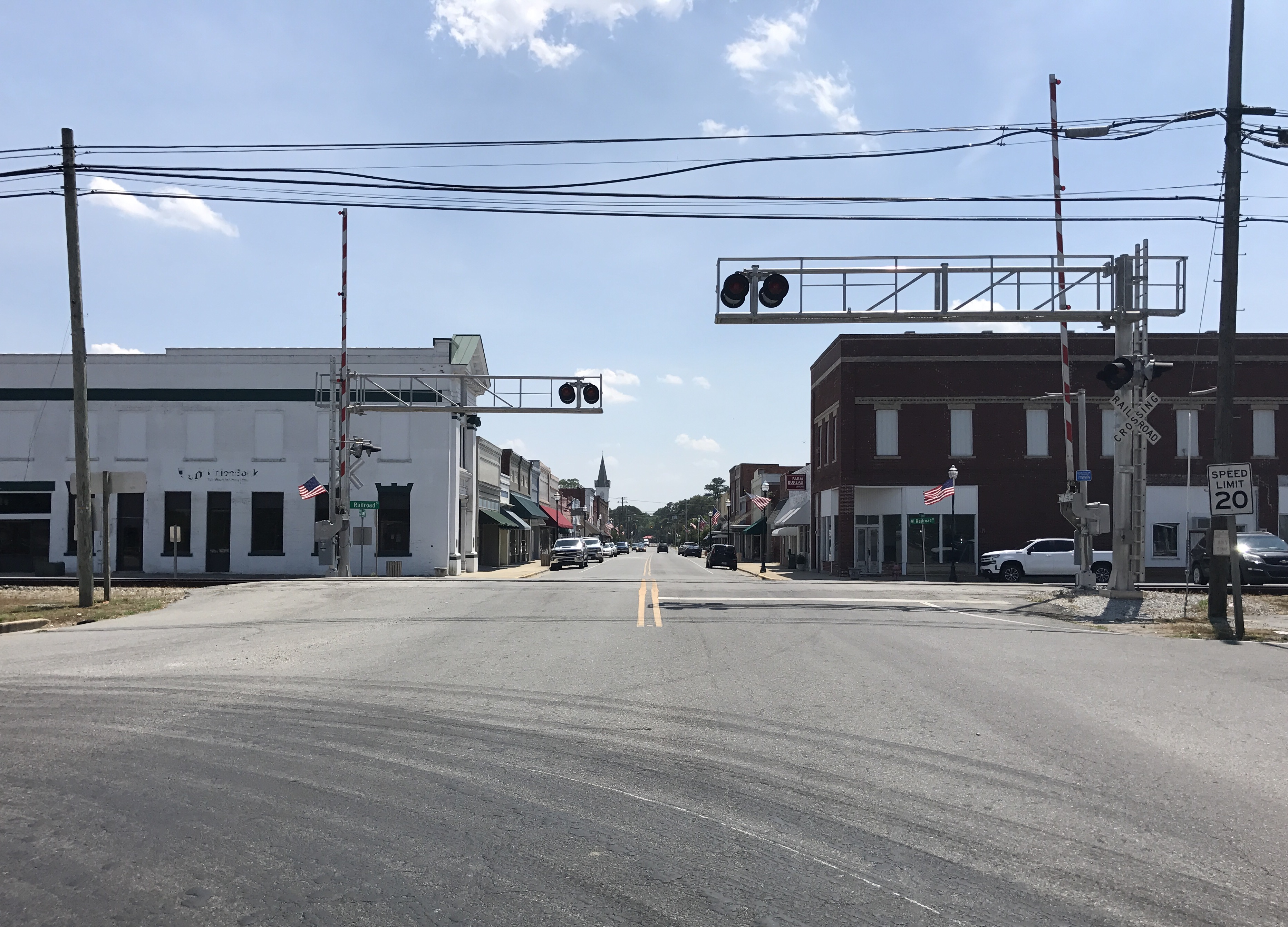 Downtown La Grange